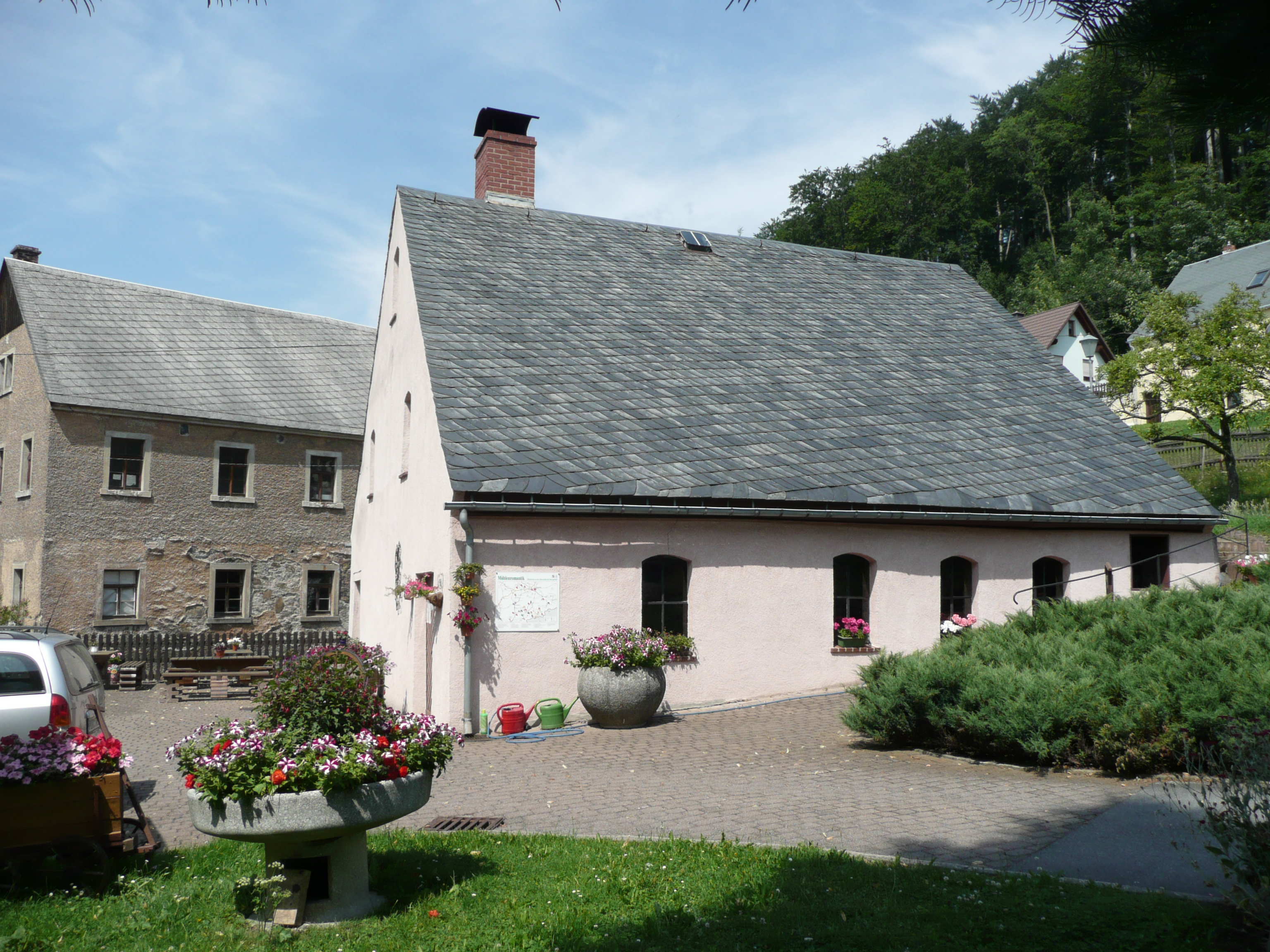 This image shows the historic ironworks in Dorfchemnitz in the Erzgebirge. The ironworks was built 1567.